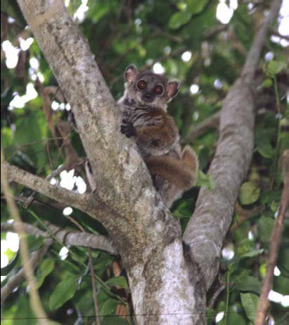 A new species of Madagascar sportive lemur (Lepilemur aeeclis) from Anjahamena during the day